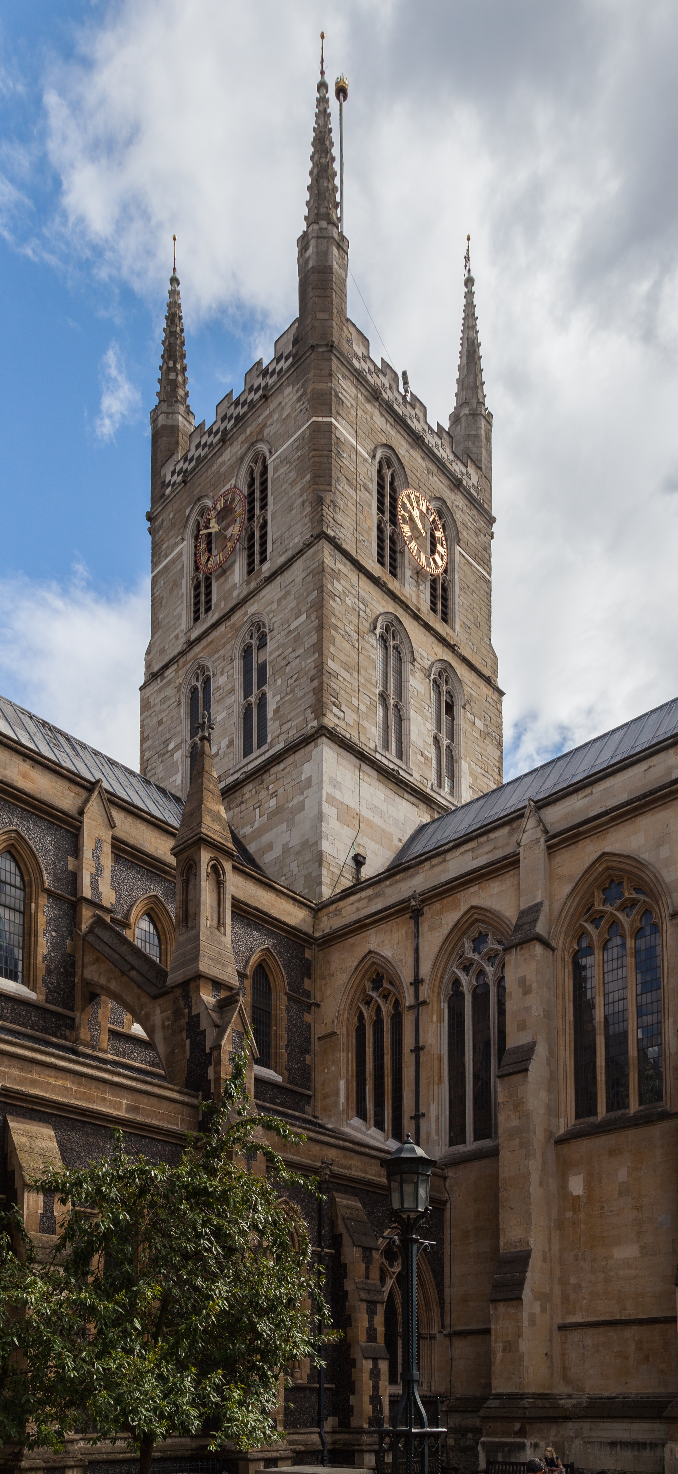 Southwark Cathedral, London, England